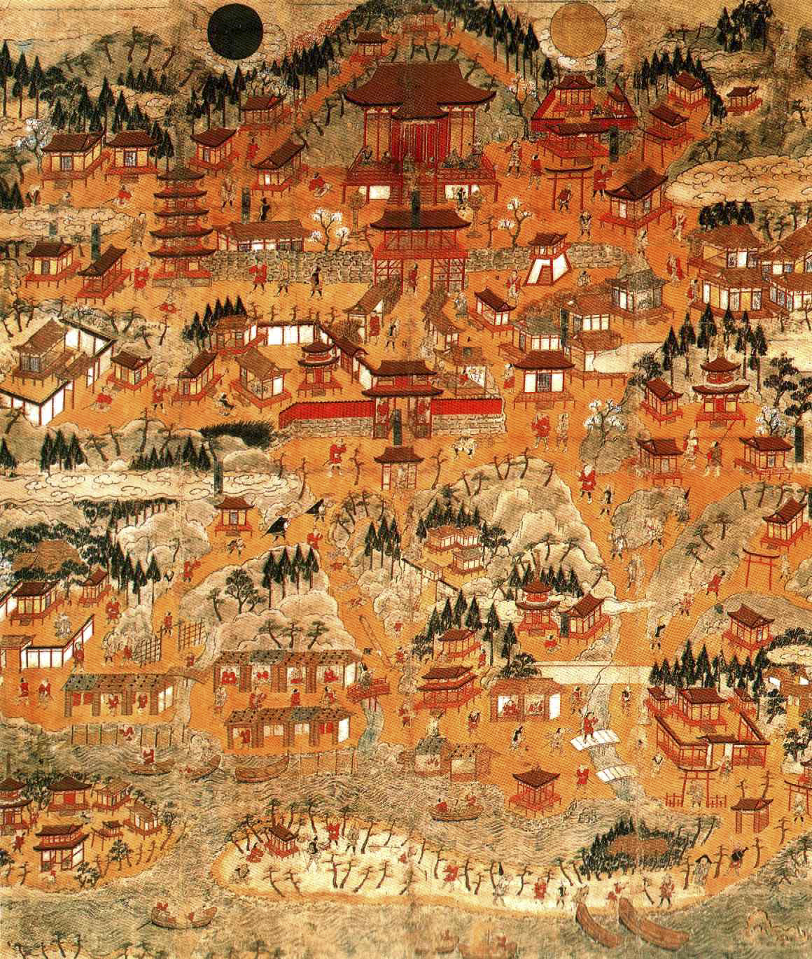 Nariaiji Sankei Mandala, Nariaiji, Miyazu, Kyoto, Japan